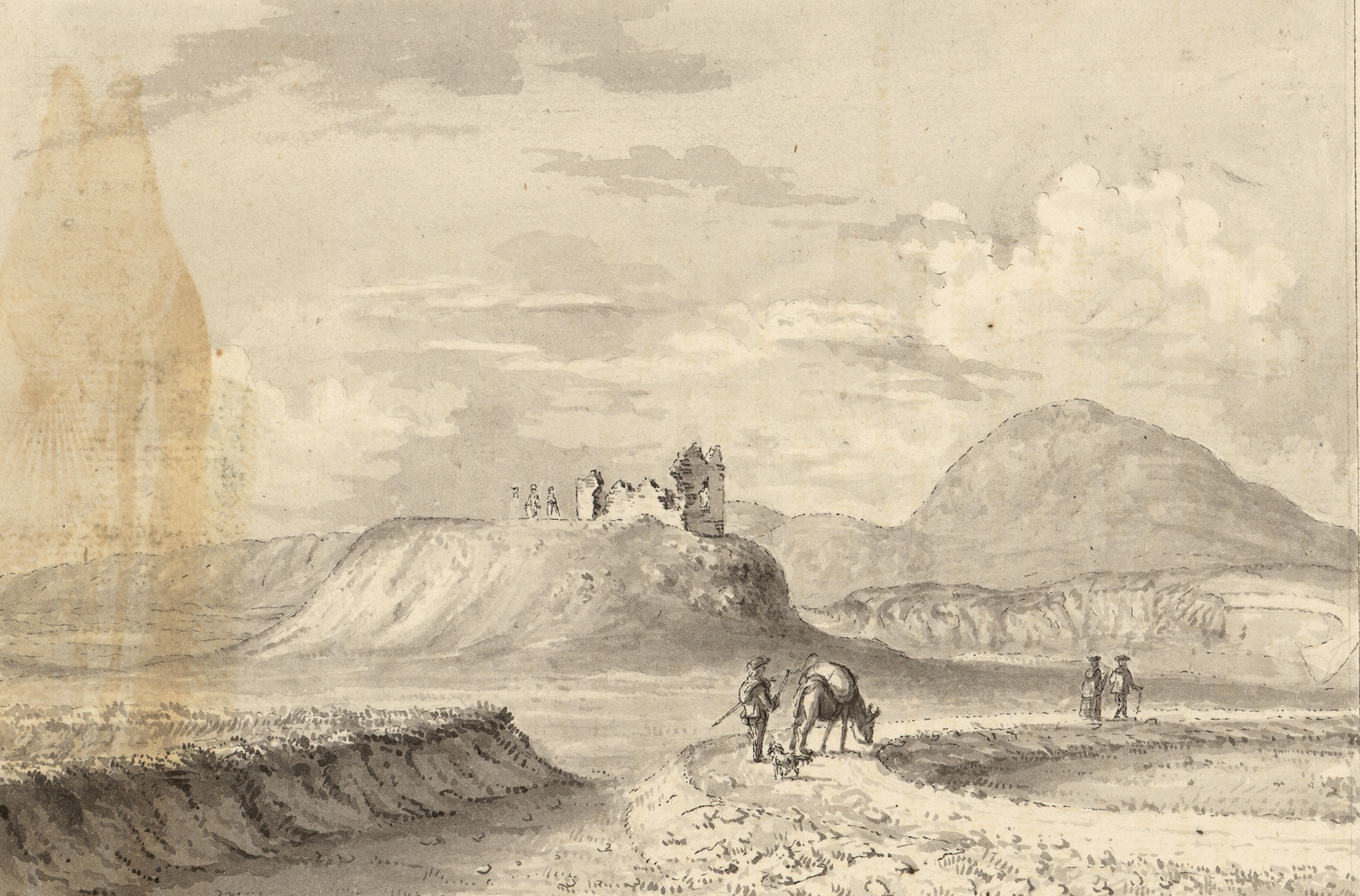 An image from a set of 8 extra-illustrated volumes of A tour in Wales by Thomas Pennant (1726-1798) that chronicle the three journeys he made through Wales between 1773 and 1776. These volumes are unique because they were compiled for Pennant's own library at Downing. This edition was produced in 1781. The volumes include a number of original drawings by Moses Griffiths, Ingleby and other well known artists of the period. Thomas Pennant (1726-1798)